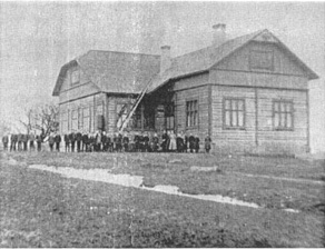 Newly finished Pyhän koulu in Mietoinen, Finland.